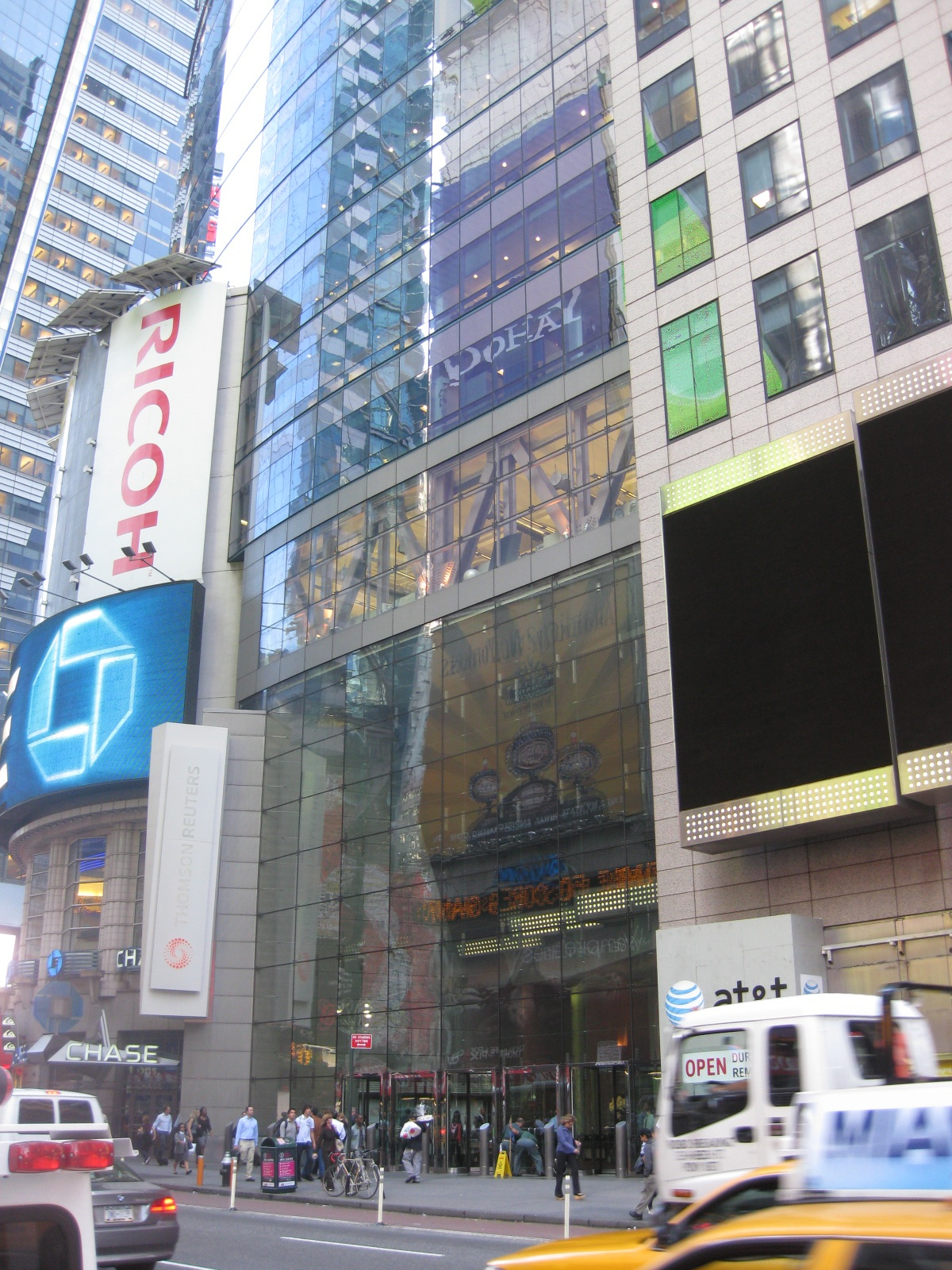 3 Times Square, 7th Avenue entrance